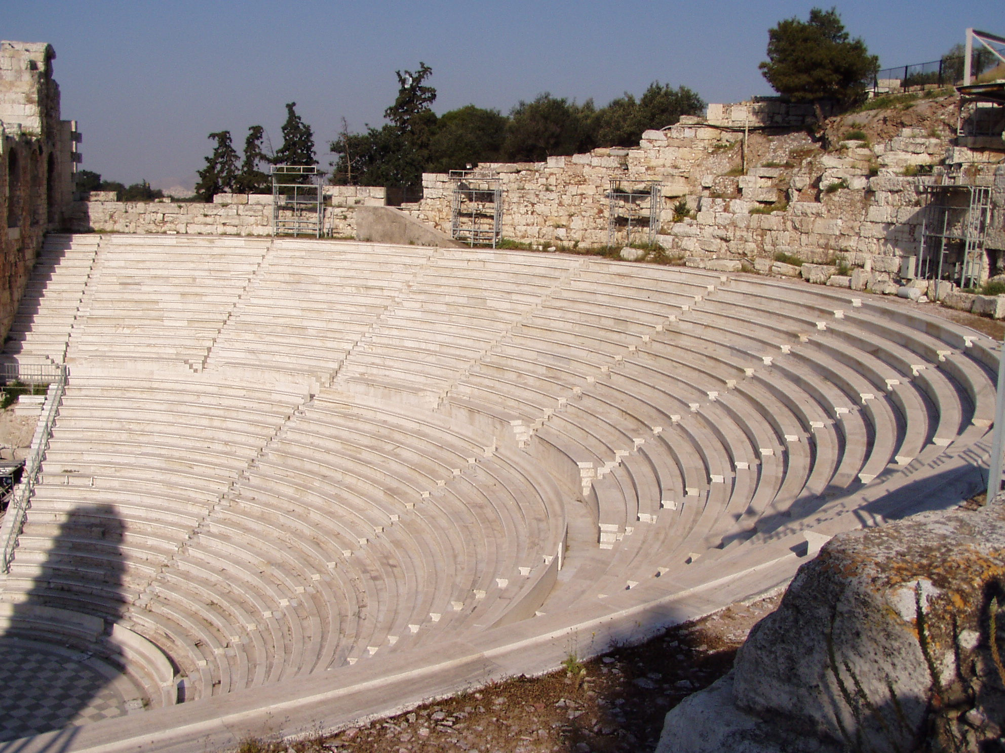 This is the cavea of the Odeon of Herodes Atticus in Athens.